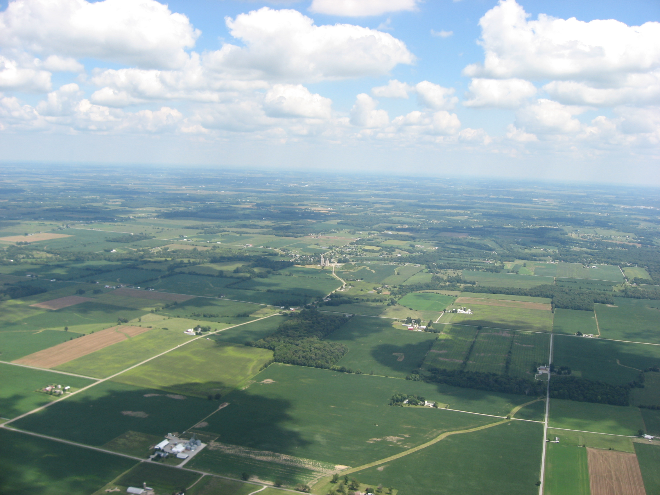 Aerial view of countryside around Thackery, a small community in Champaign County, Ohio, United States. Picture taken from a Diamond Eclipse light airplane at an altitude of 3,420 feet MSL and a bearing of approximately 75º.